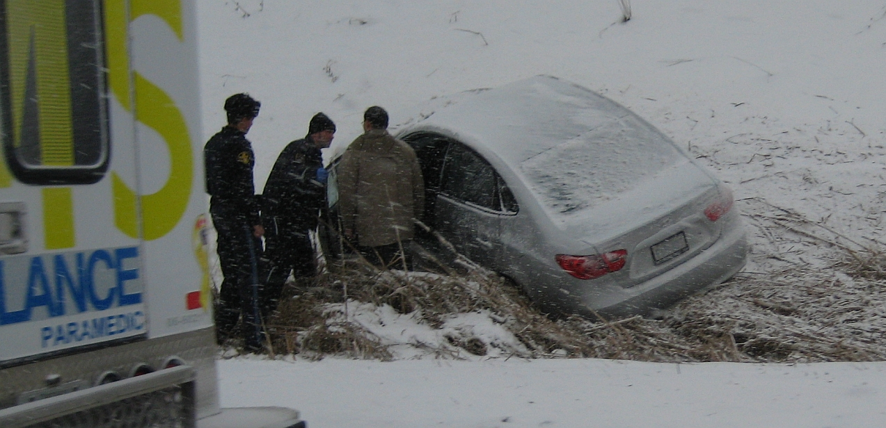 During a lake effect snowsquall an unfortunate driver loses control and ends up in the ditch on hwy 404 while heading southbound (near Stouffville Rd). Ontario Provincial Police officer and York Region EMS personnel assessing the scene. Adverse weather conditions under squalls often catch drivers off guard due to their highly localized nature.